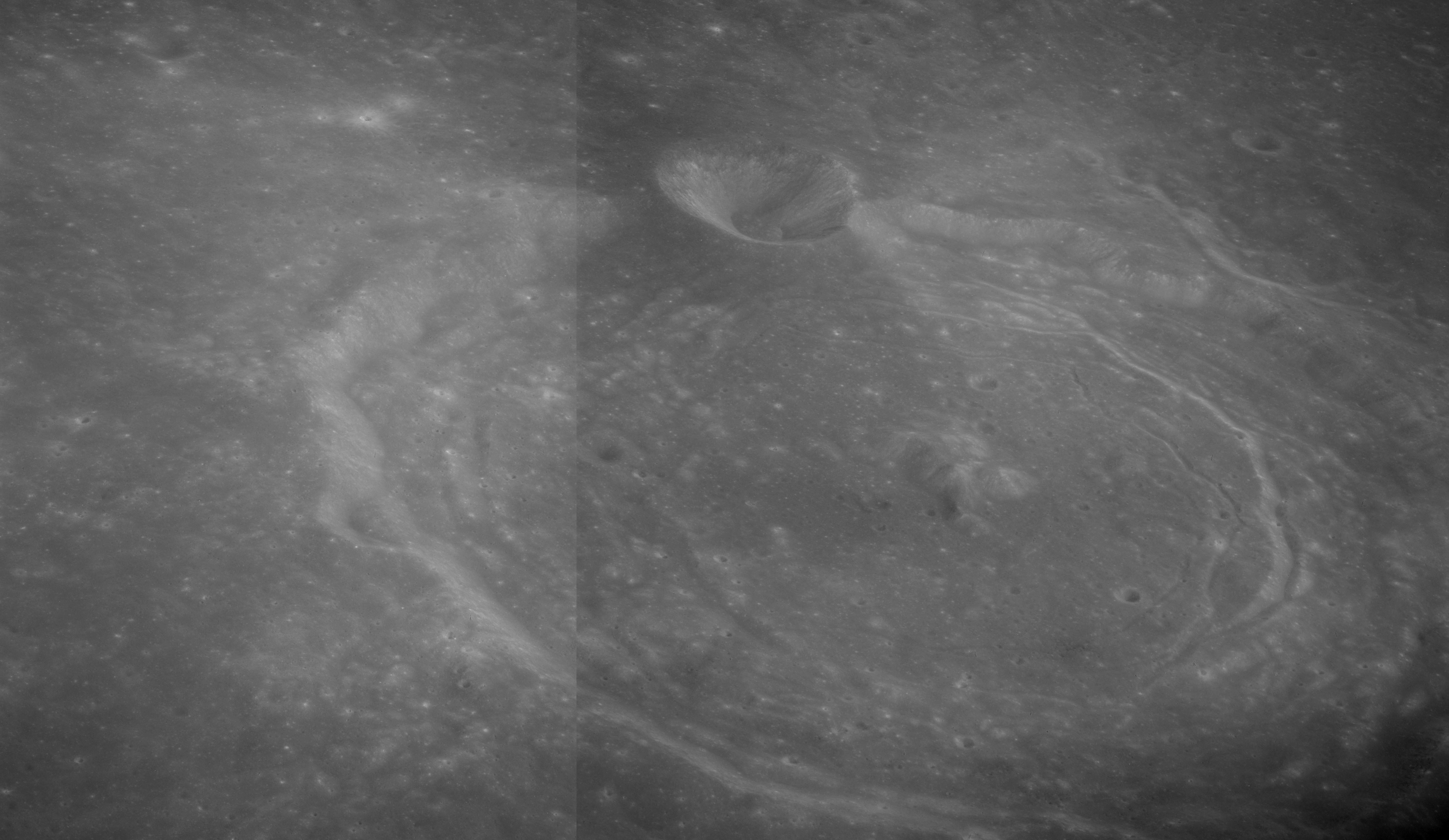 Oblique view of Taruntius, on the moon.